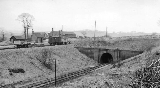 Bradnop Station (remains), near to Bradnop, Staffordshire, Great Britain. View NW, towards Leek Brook Junction and Leek; ex-NSR Leek - Waterhouses branch. Bradnop station was closed to passengers when the branch service was withdrawn on 30/9/35, but it remained open for goods until 4/5/64 when all except stone traffic for the railway ceased Caldon Quarry - Leek Brook Junction, Caldon Junction - Waterhouses having closed 1/3/43; in turn stone traffic ceased in 1989.